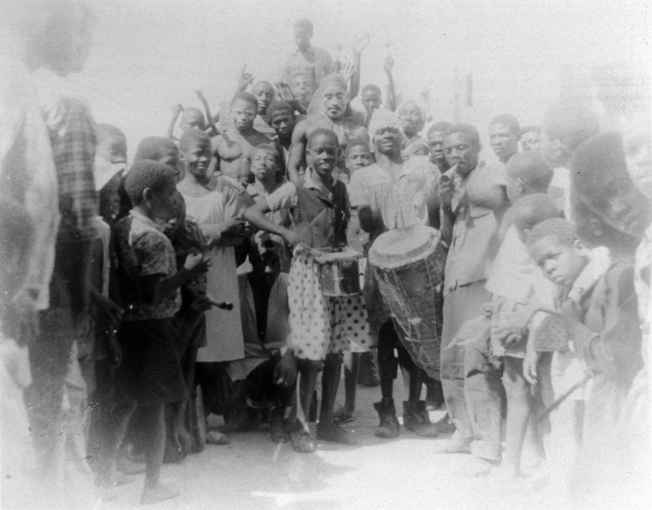 The file is a photograph showing Master Drummer Frisner Augustin (holding large drum in center) with the Mardi Gras band he organized in his youth in the Portail Léogane district of Port-au-Prince, Haiti. Other information The author, who is deceased, gave a print of the photograph to the lead musician pictured in the image in 1990. The musician, Frisner Augustin, gave it to his New York City-based company to scan and use as appropriate, and to preserve in its archives.